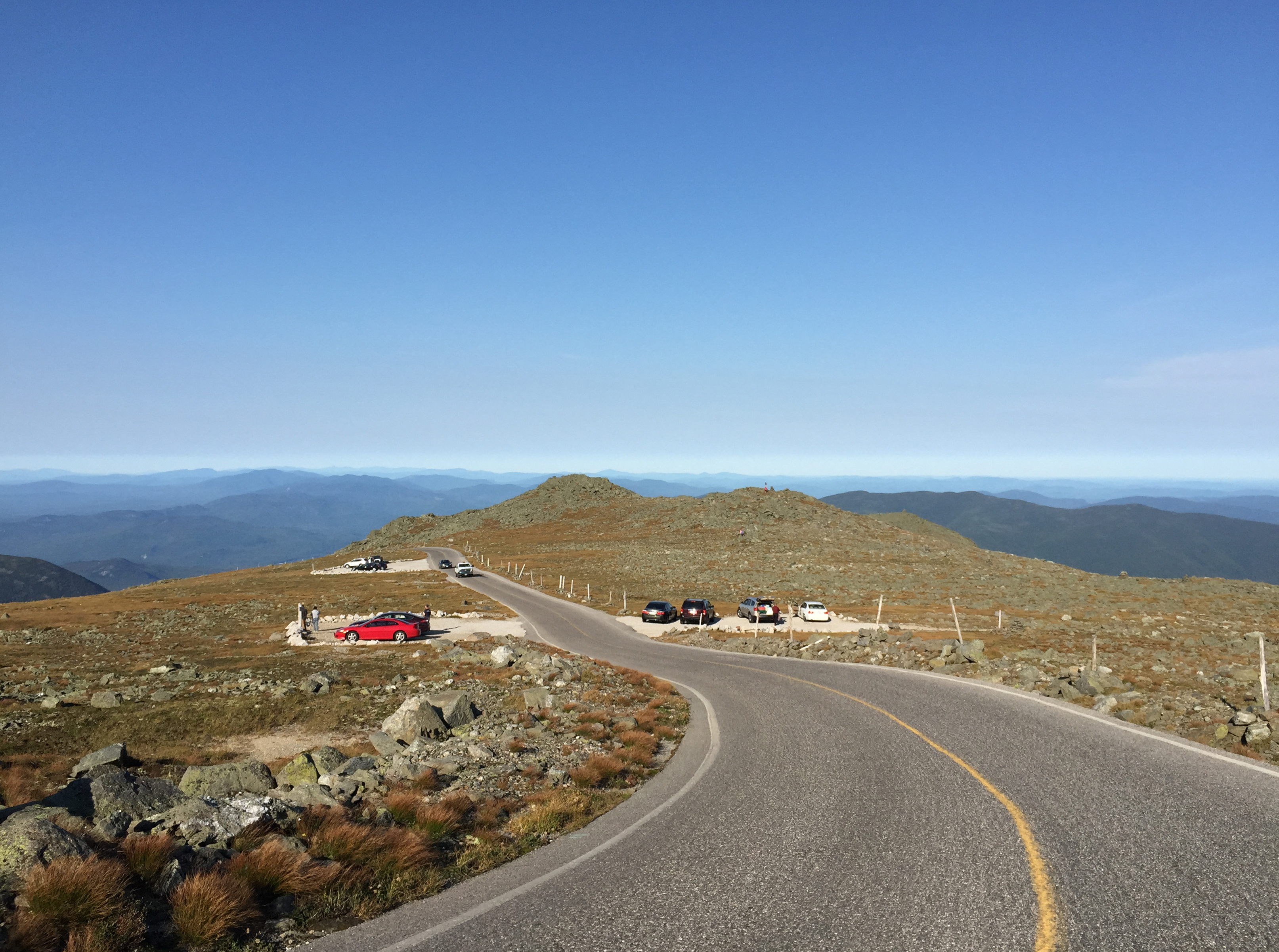 View eastbound down the Mount Washington Auto Road at about mile 6.7 (about 5760 feet above sea level) in Thompson and Meserve's Purchase Township, Coos County, New Hampshire